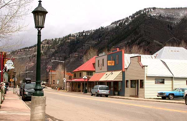 View along the business district of downtown Minturn, Colorado. April 28, 2005.